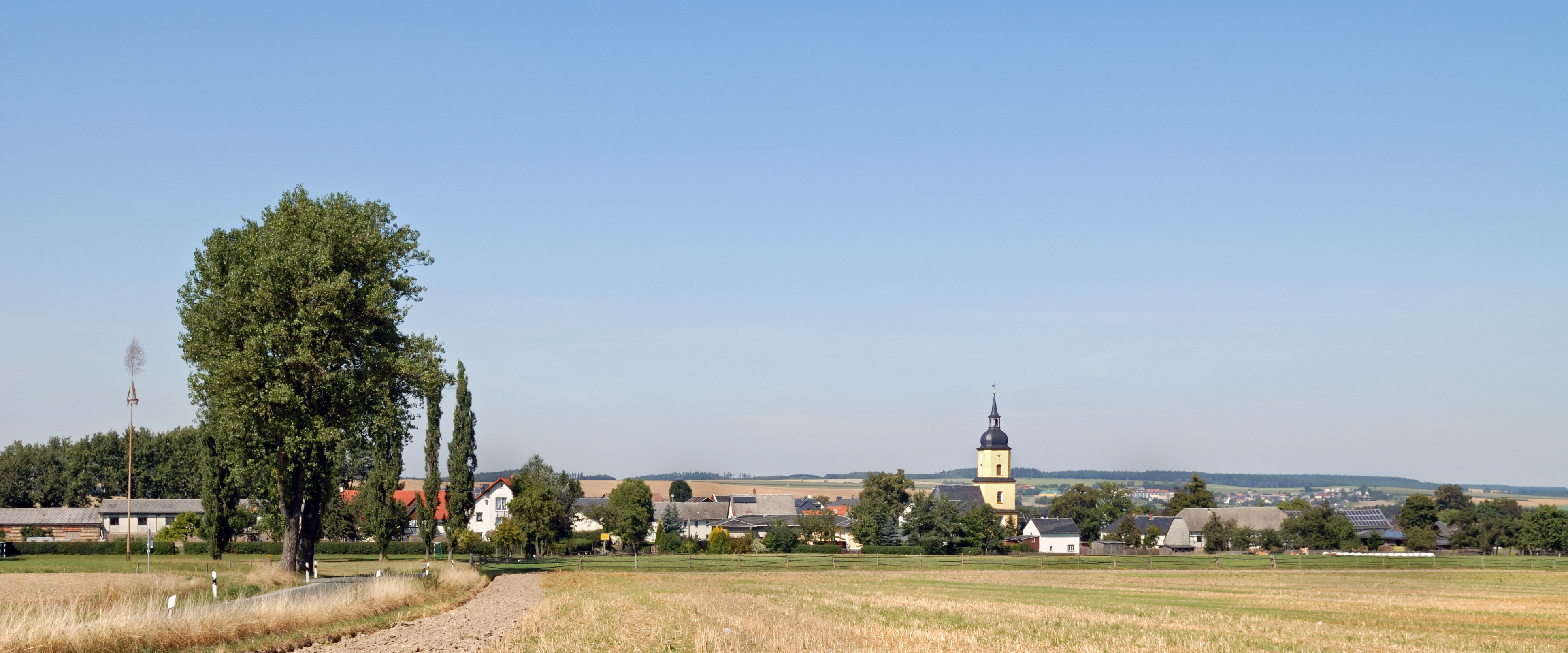 This image shows the township Merkendorf in Thuringia.